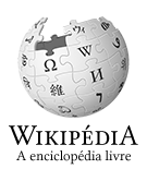 Wikipedia logo 2.0